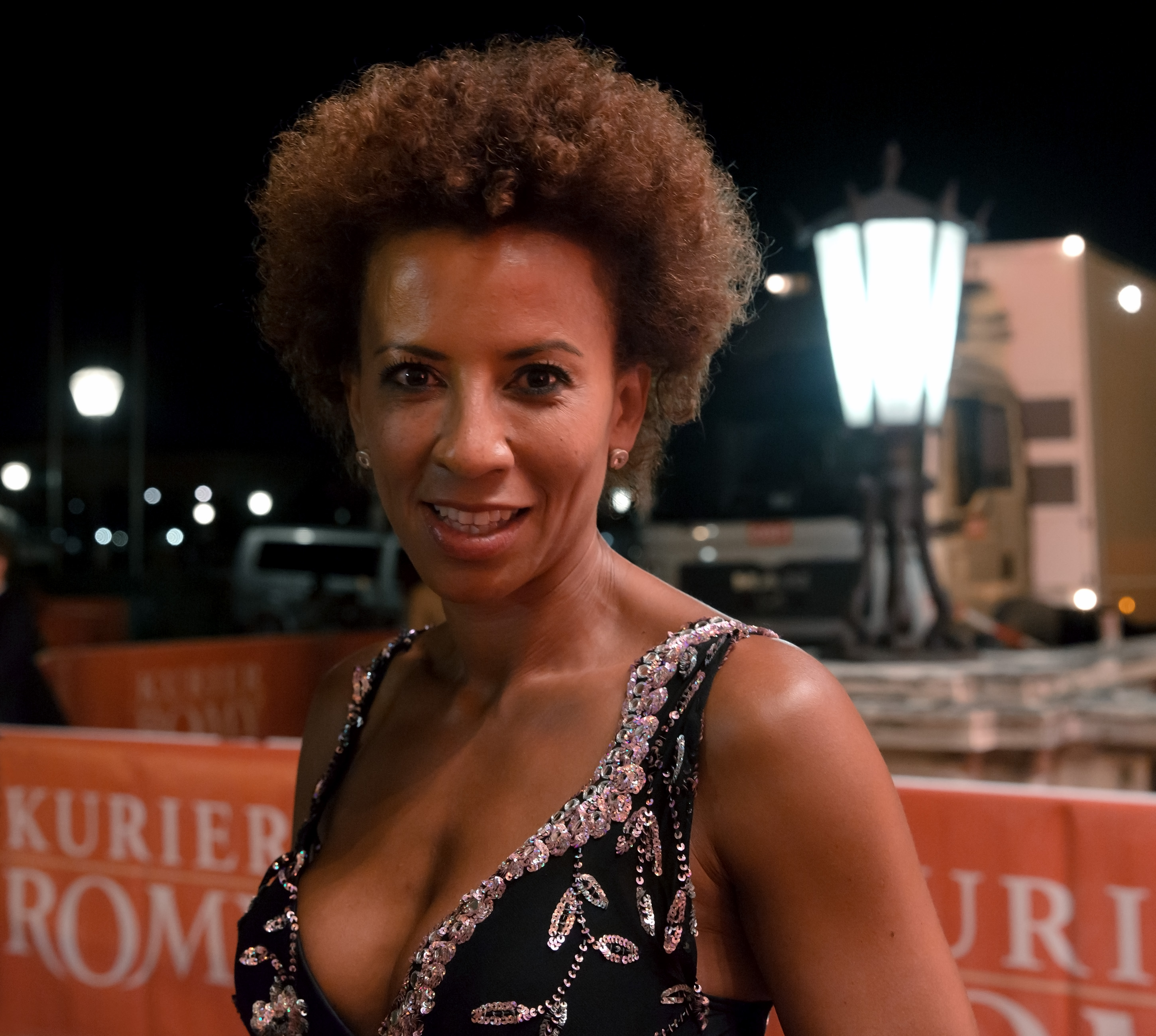 Arabella Kiesbauer on the red carpet of the Romy TV awards at Hofburg Palace in Vienna, Austria.